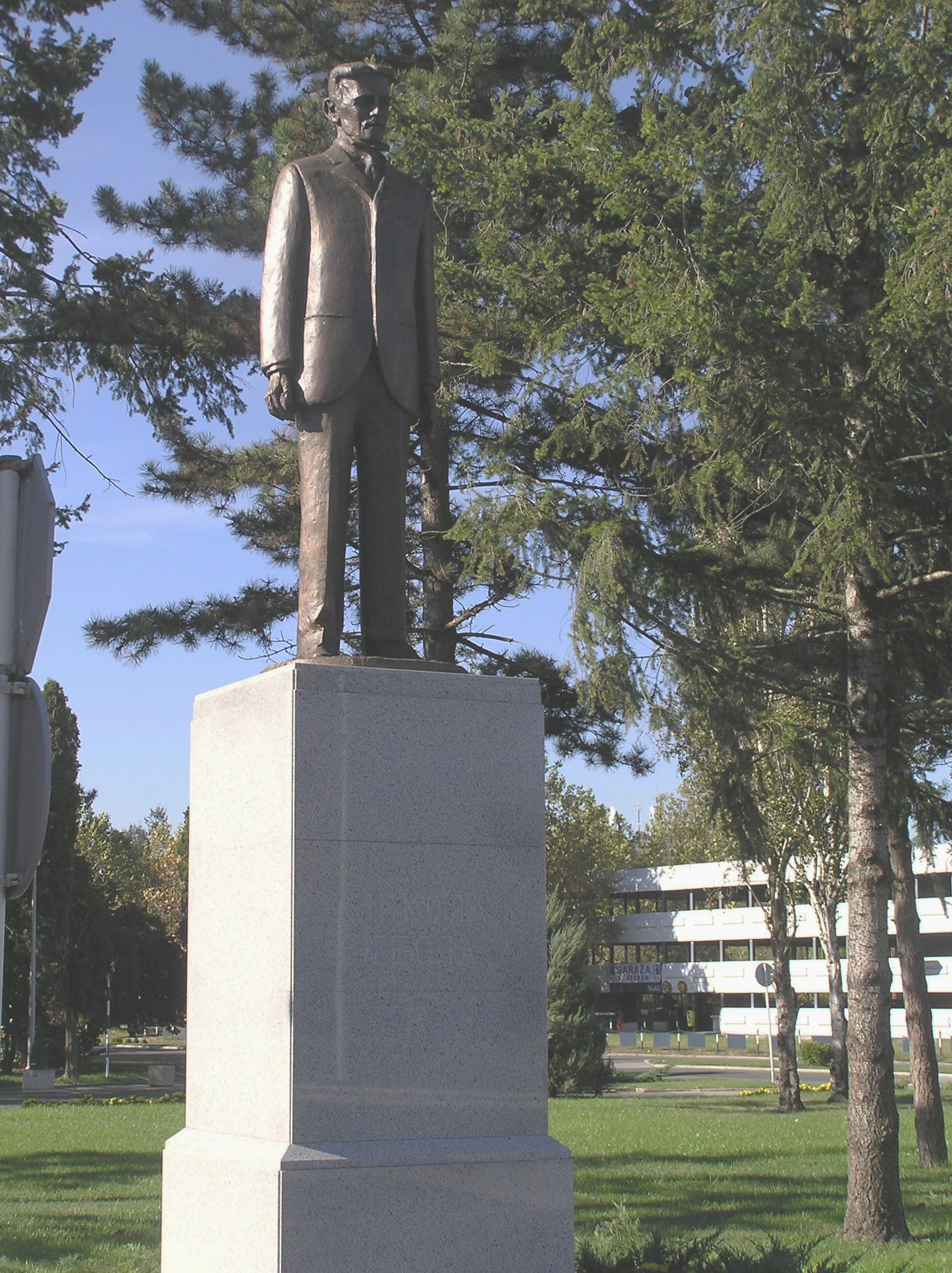 The statue of Nikola Tesla in front of the Belgrade Airport